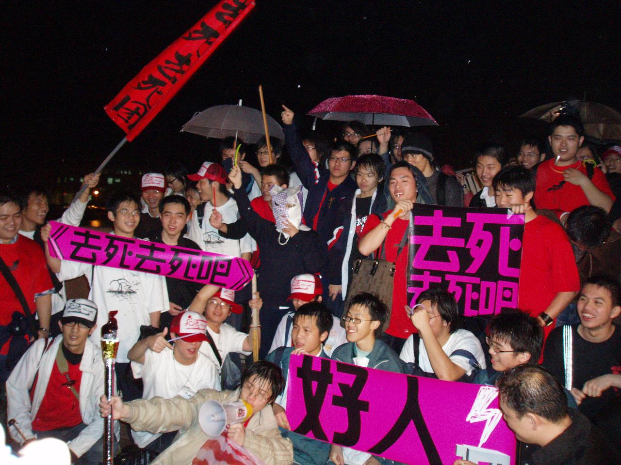 On Feb. 14 2006 (St. Valentine's Day), the couples suck club (anti-lovers club) make a demonstration in Tamsui Fisherman's Wharf, Taipei County.